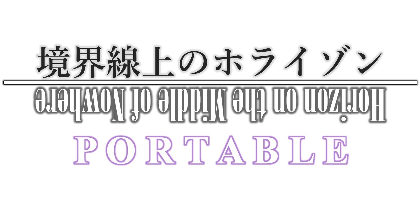 Logo of Kyōkai Senjō no Horizon PORTABLE.